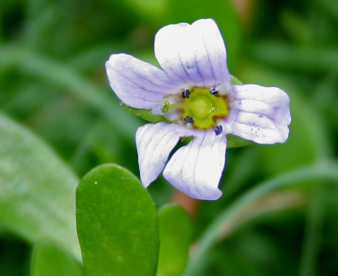 Bacopa monnieri (syn. Bramia monnieri, Gratiola monnieria, Herpestes monnieria, Herpestis fauriei, H. monniera, H. monnieria, Lysimachia monnieri, Moniera euneifolia)- Coastal Waterhyssop, Thyme-leafed gratiola, Water hyssop, Water Hyssop, Indian pennywort, Brahmi ब्राह्मी (Hindi), நீர்ப்pராமி Nirbrahmi (Tamil), Jalanevari (Gujarati)- in Hyderabad, India.